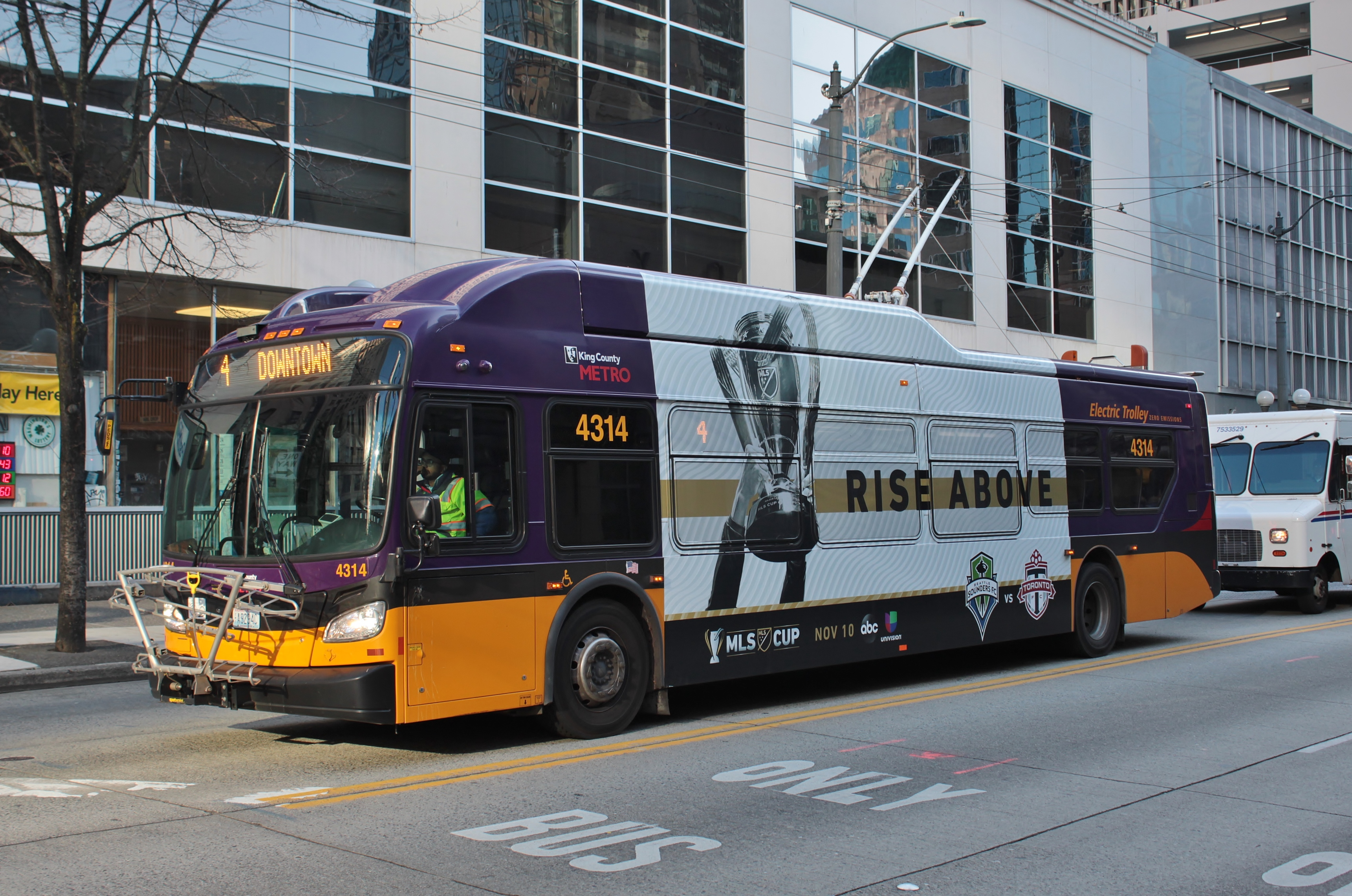 A New Flyer Xcelsior XT40 electric trolleybus operated by King County Metro, seen on Route 4 in downtown Seattle. It has an advertisement for MLS Cup 2019, which was hosted in Seattle.